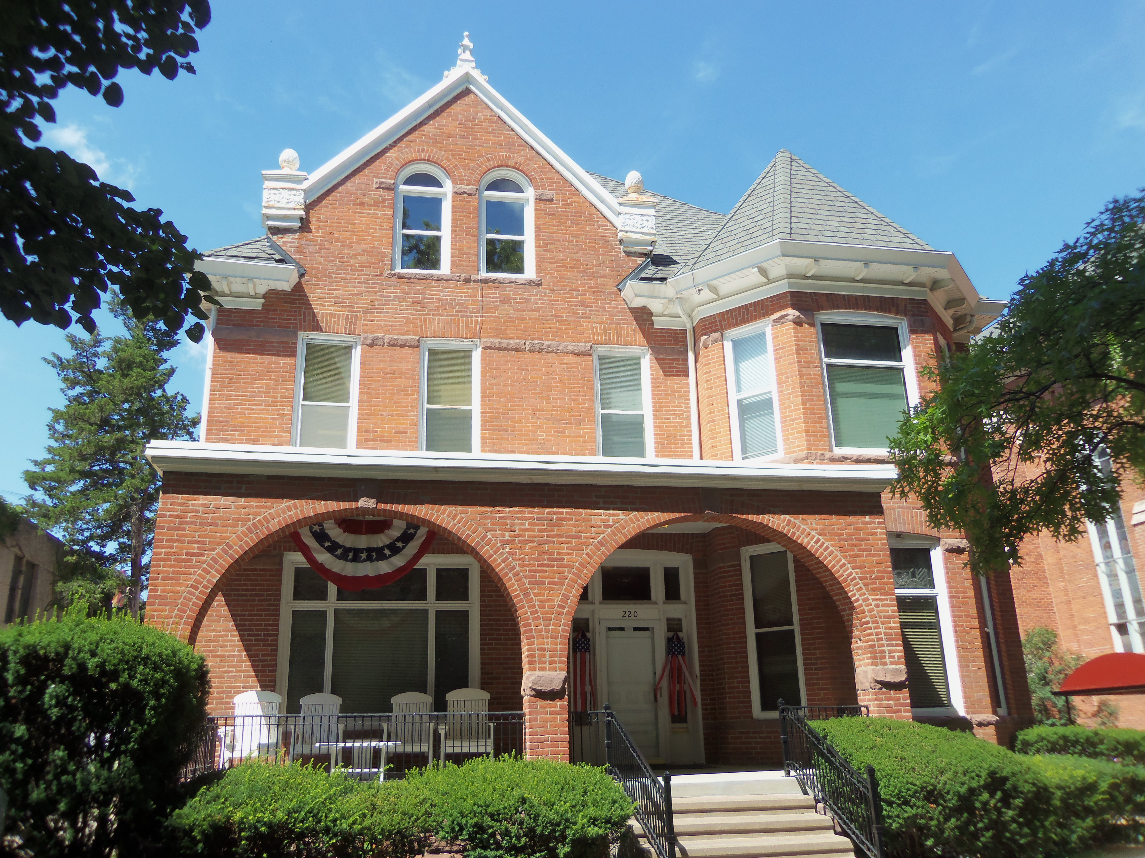 Saint Mary's Rectory in Iowa City, Iowa. It is listed on the National Register of Historic Places.